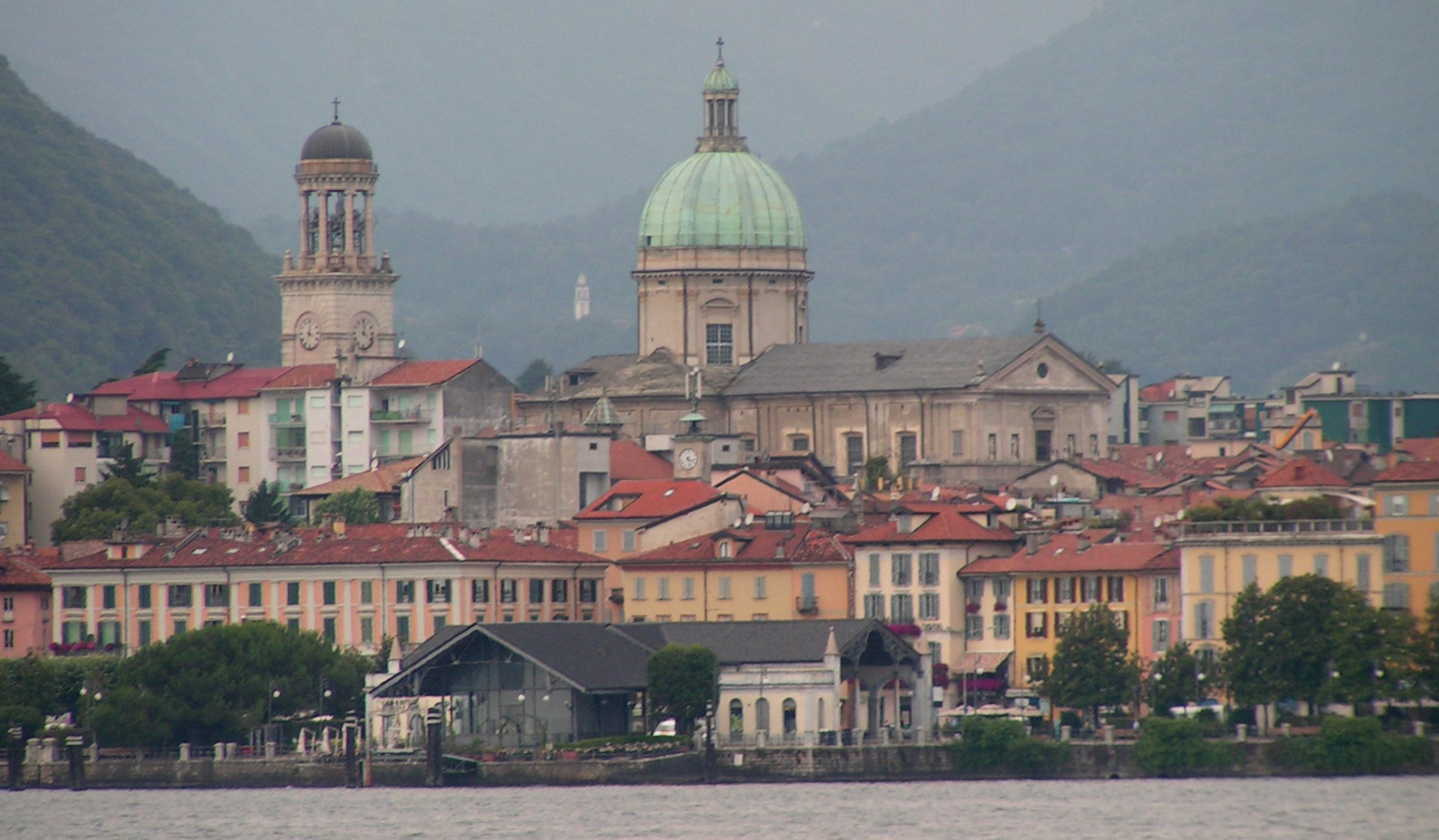 View at Verbania-Intra across Lago Maggiore from the car ferry